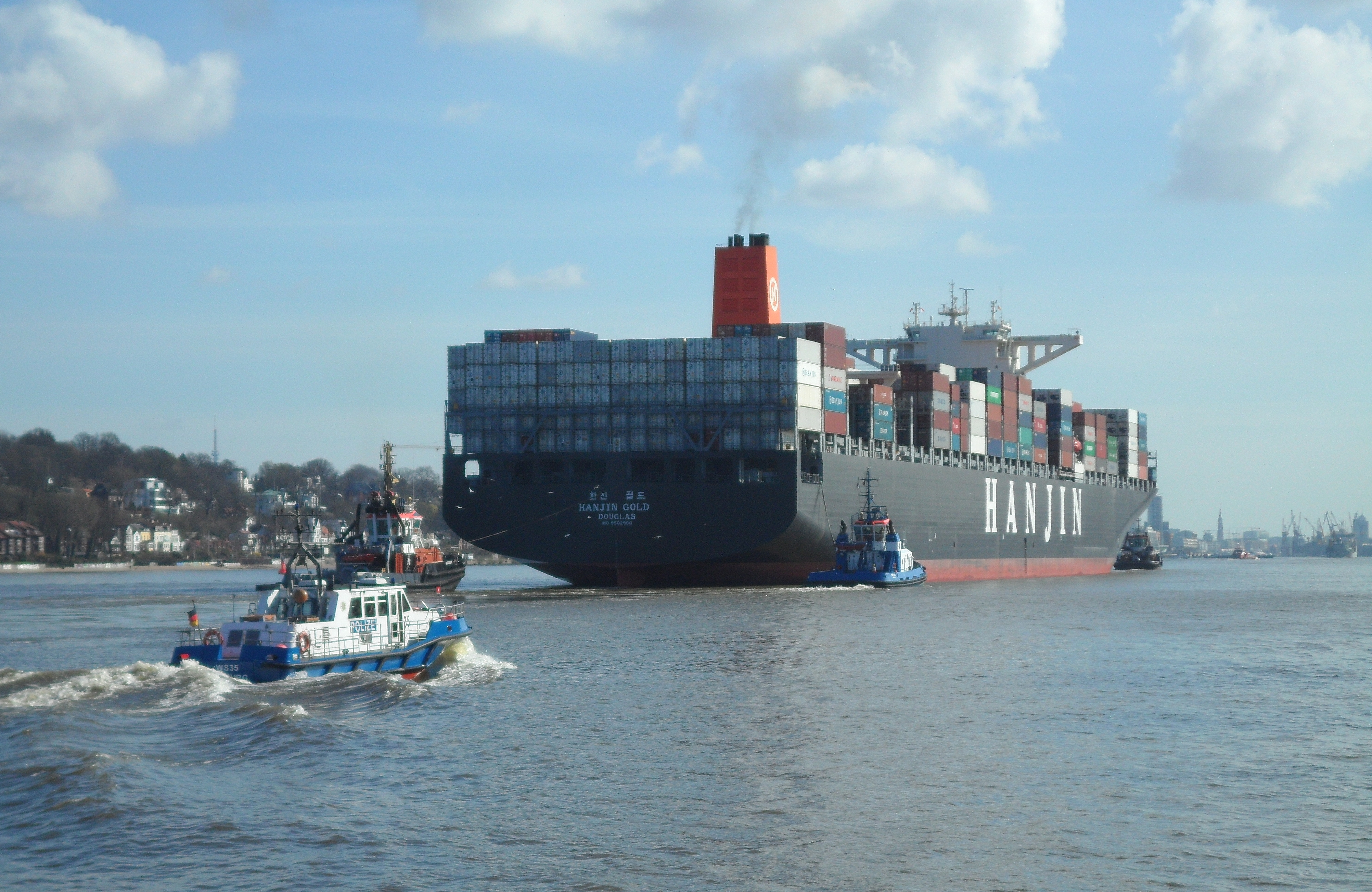 The new container ship Hanjin Gold, with the assistance of 3 tugs and destination Port of Hamburg